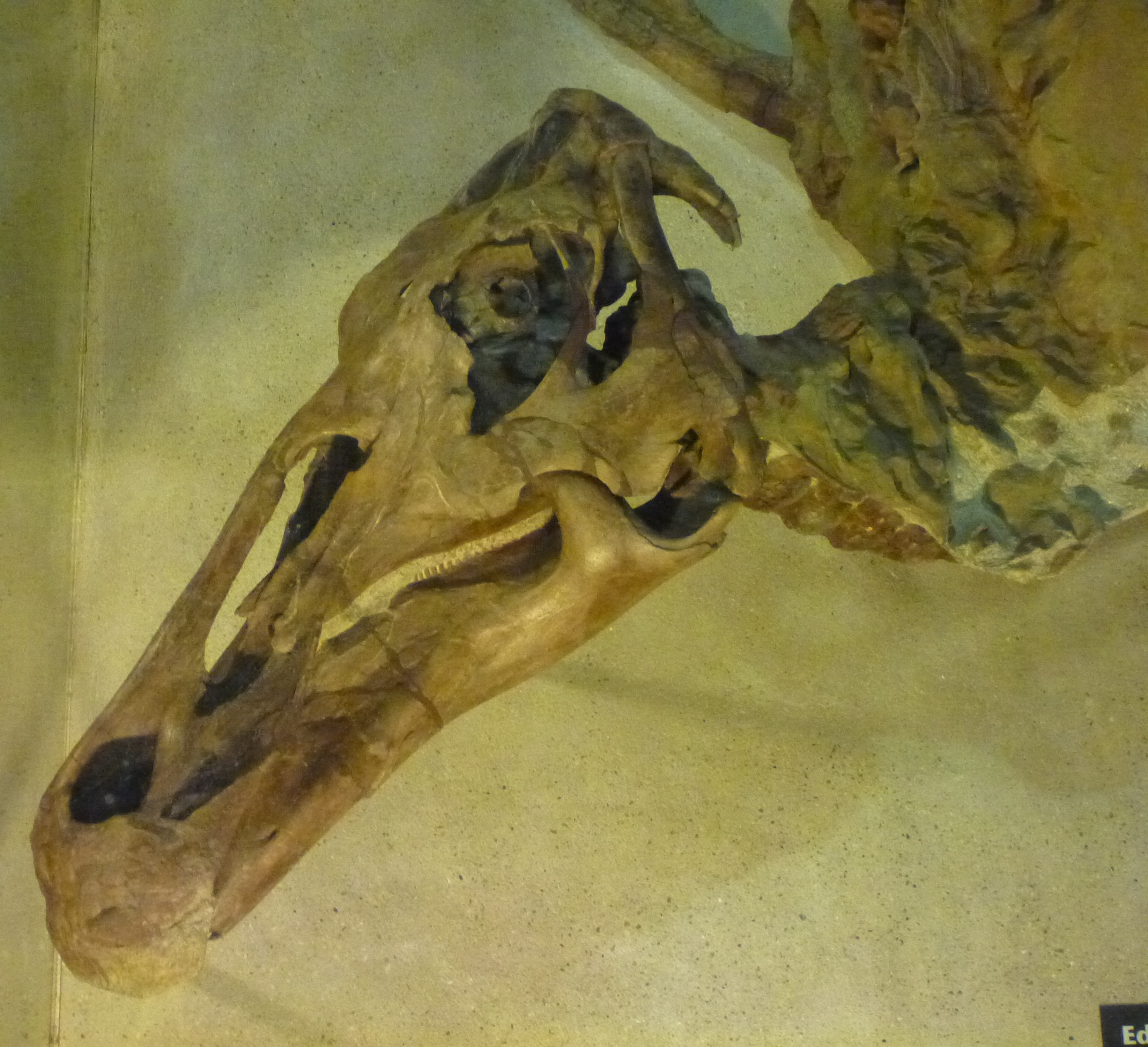 The Edmontosaurus mummy SMF R 4036 on display at the Senckenberg Museum, Frankfurt, Germany.